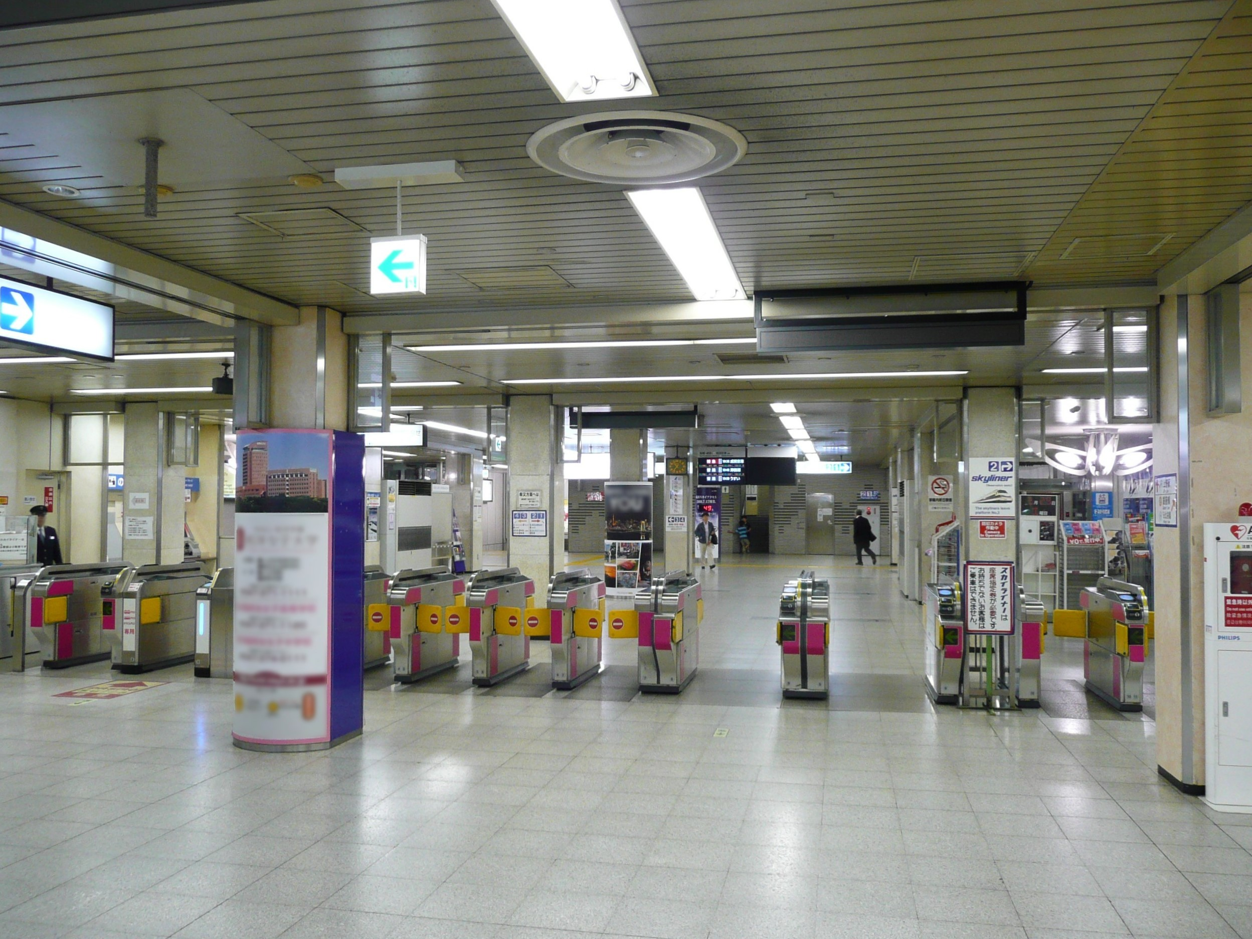 The ticket barriers at Keisei Ueno Station in Tokyo